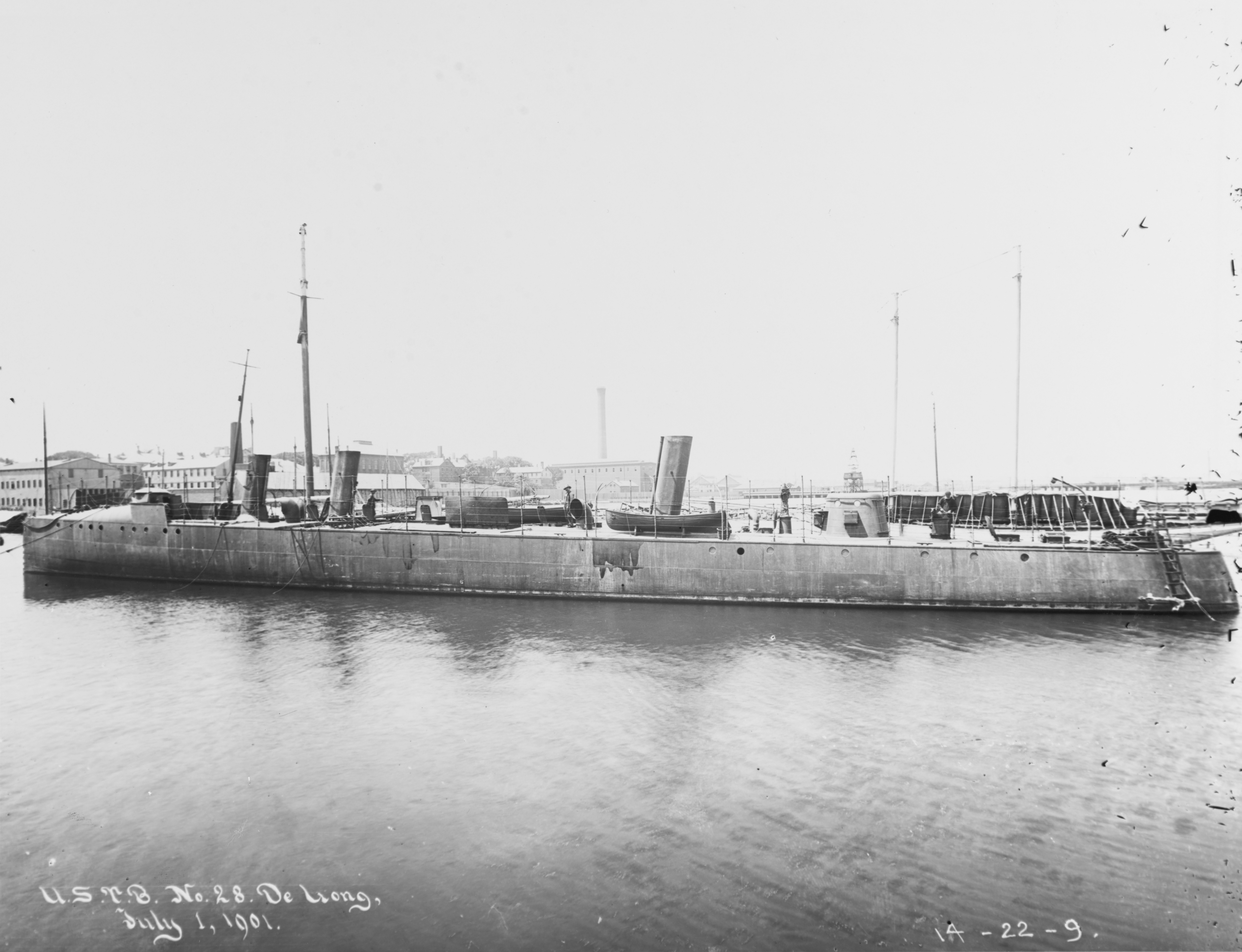 (Torpedo Boat # 28) Fitting out on 1 July 1901. She was built by George Lawley & Sons, South Boston, Massachusetts. Photograph from the Bureau of Ships Collection in the U.S. National Archives.